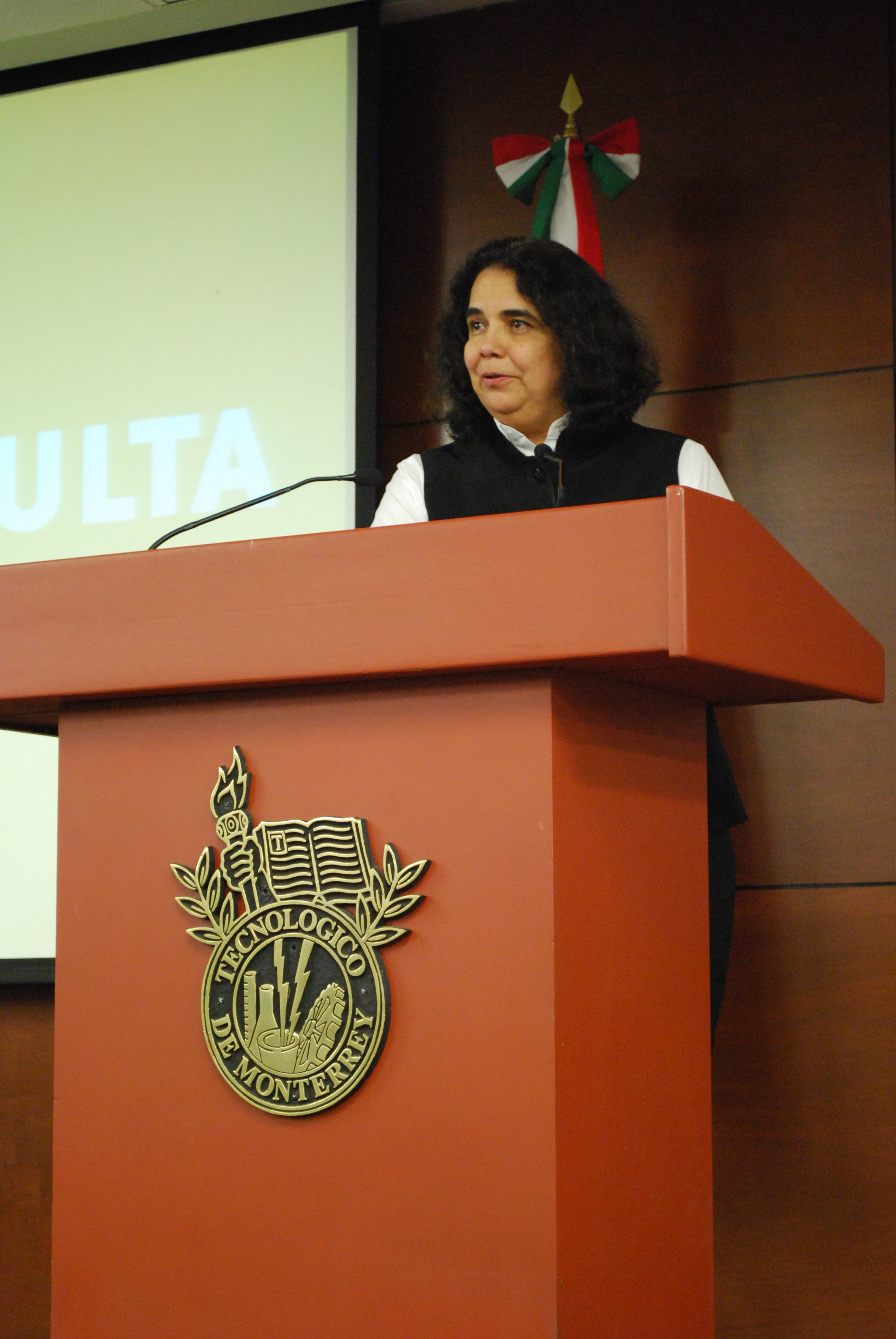 CONACULTA director Consuelo Sáizar speaking at ITESM-Campus Ciudad de México